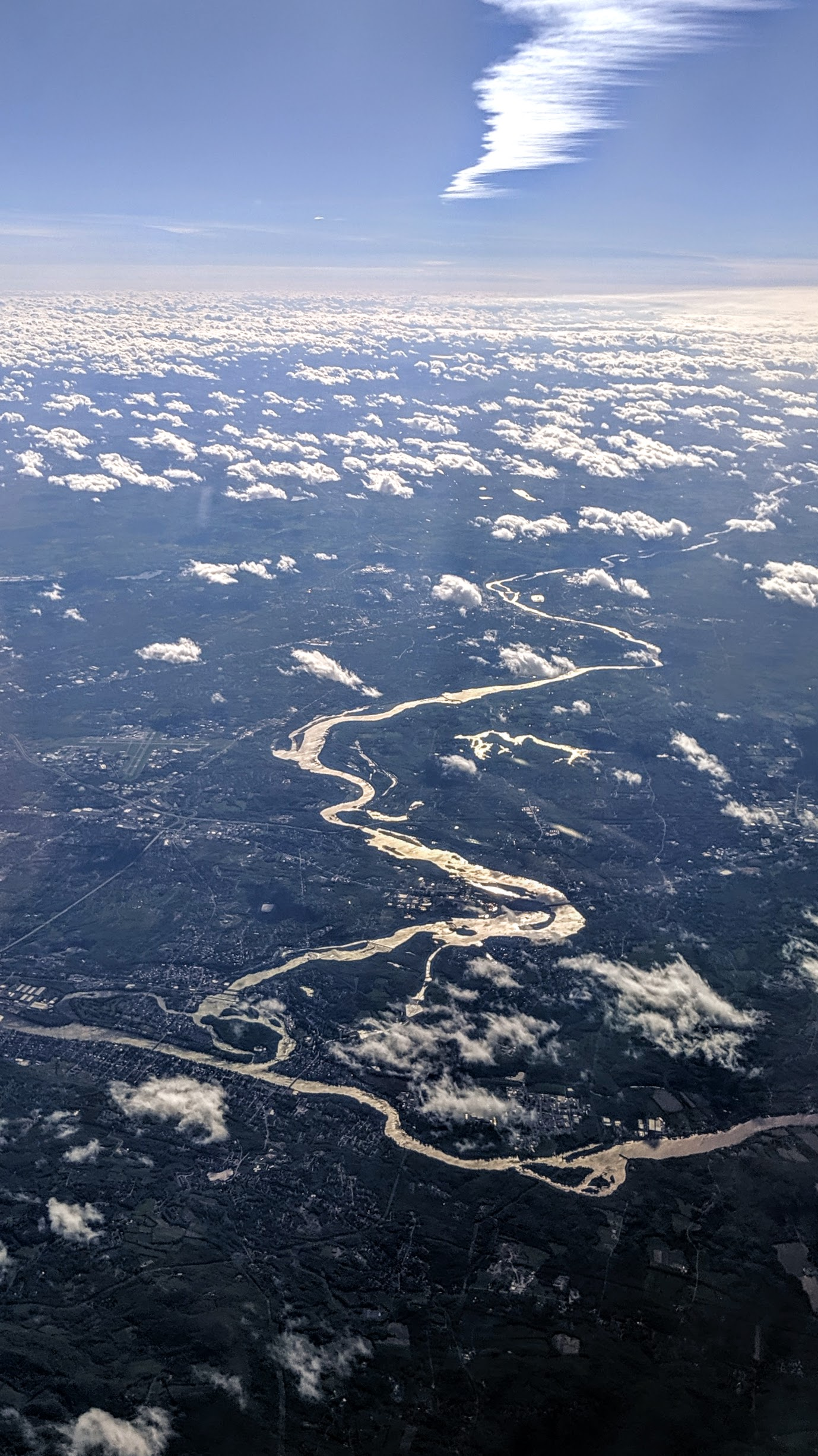 Aerial view of the Mohawk River, looking west from near Troy to near Schenectady, including its junction with the Hudson.